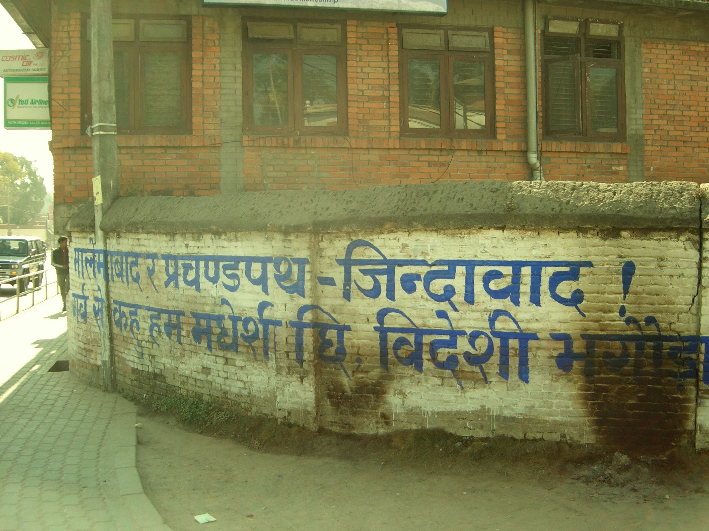 Maoist wallpainting in Kathmandu, just opposite of US embassy. First line read 'Malemabad ra Prachandrapath Zindabad' (Long live MA(rx)LE(nin)MA(o)ism and Prachandra Path'. Photo: Soman